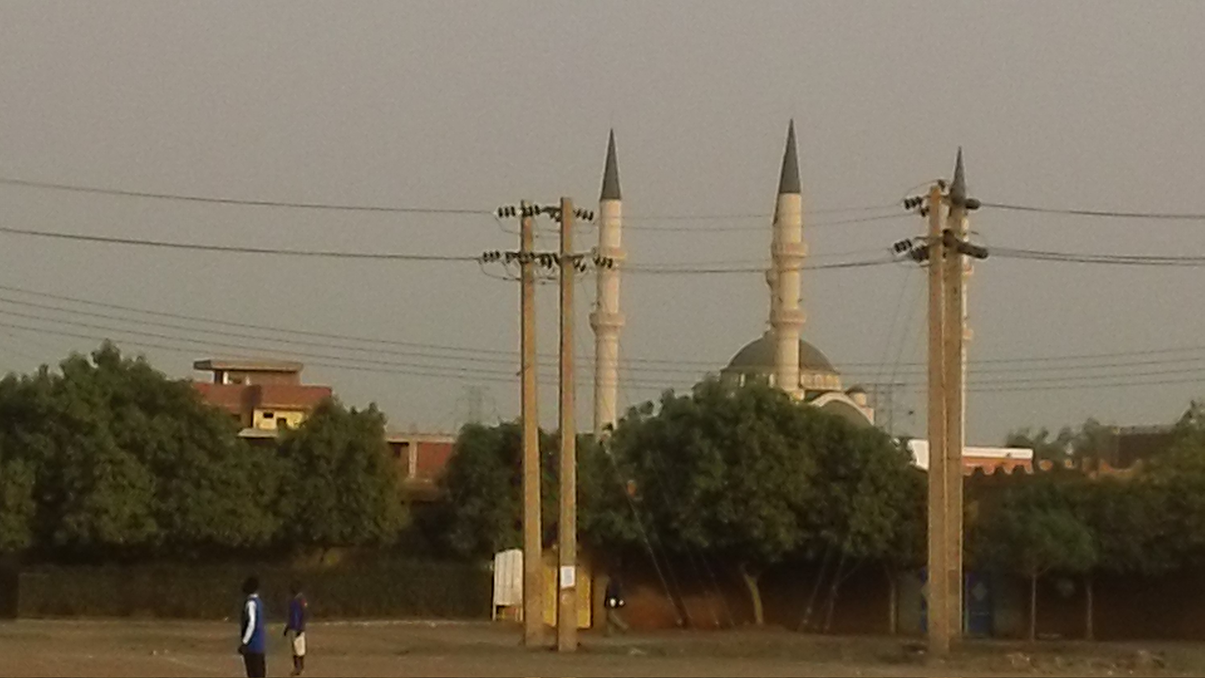 حي كوبر – خرطوم بحري -السودان